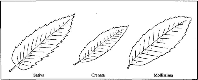 Different Castanea leaves (sativa, crenata and mollissima)